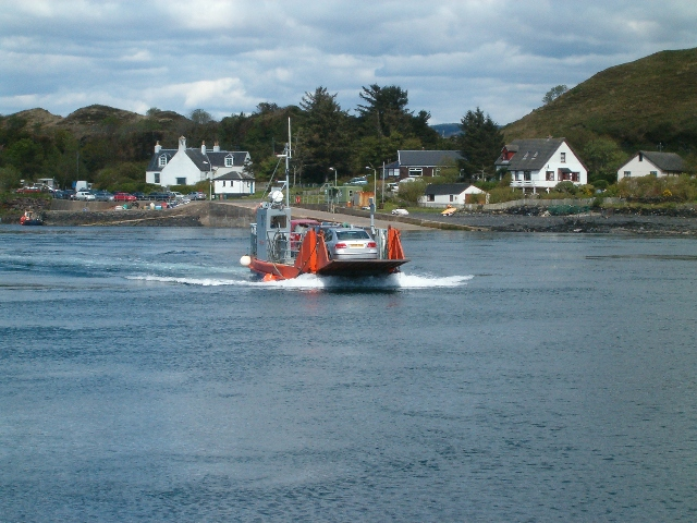 Luing Ferry. Crossing the Cuan Sound, with the slipway on Seil in the background.